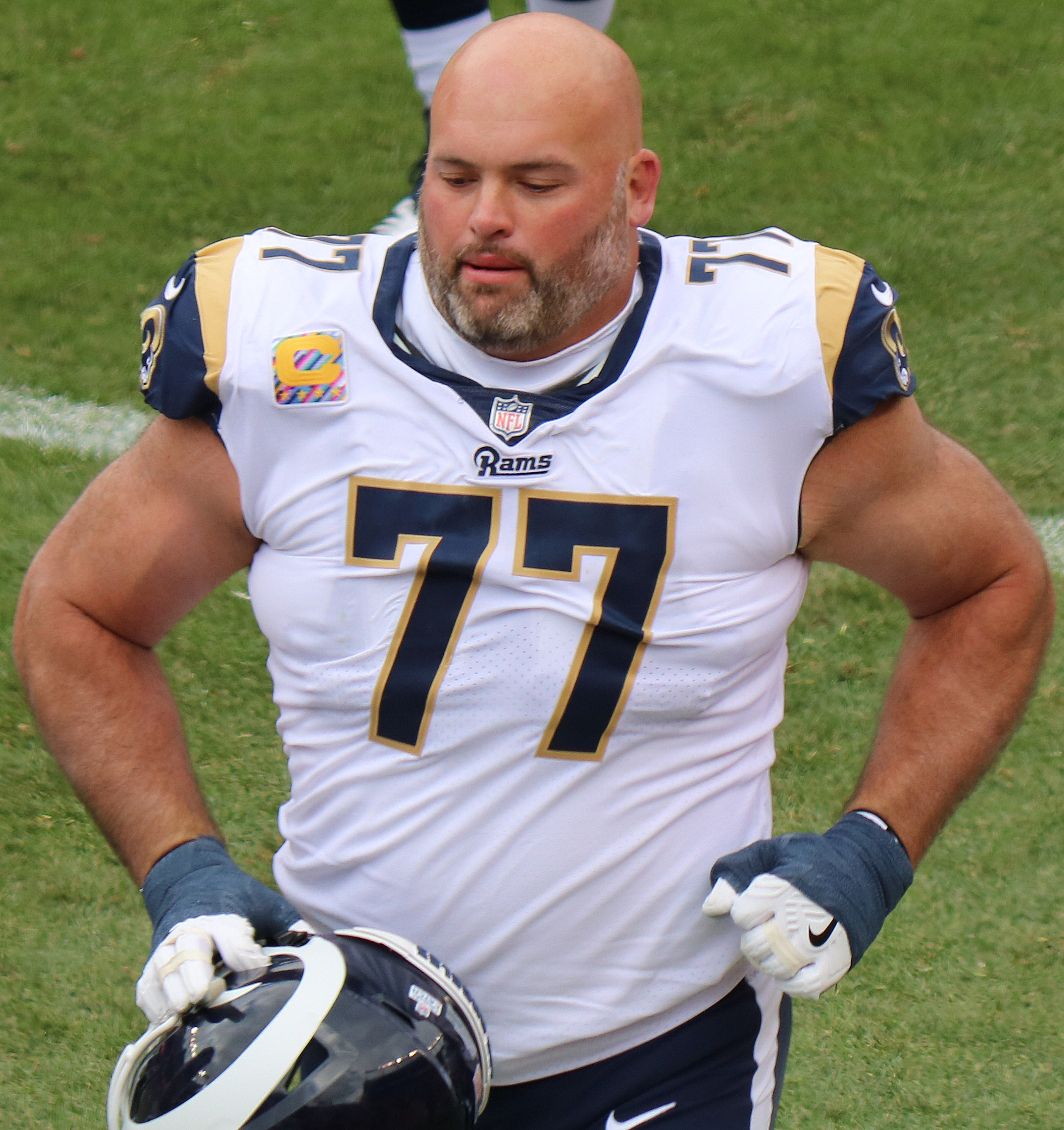 Andrew Whitworth, a National Football League player.